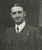 F. F. Bosworth